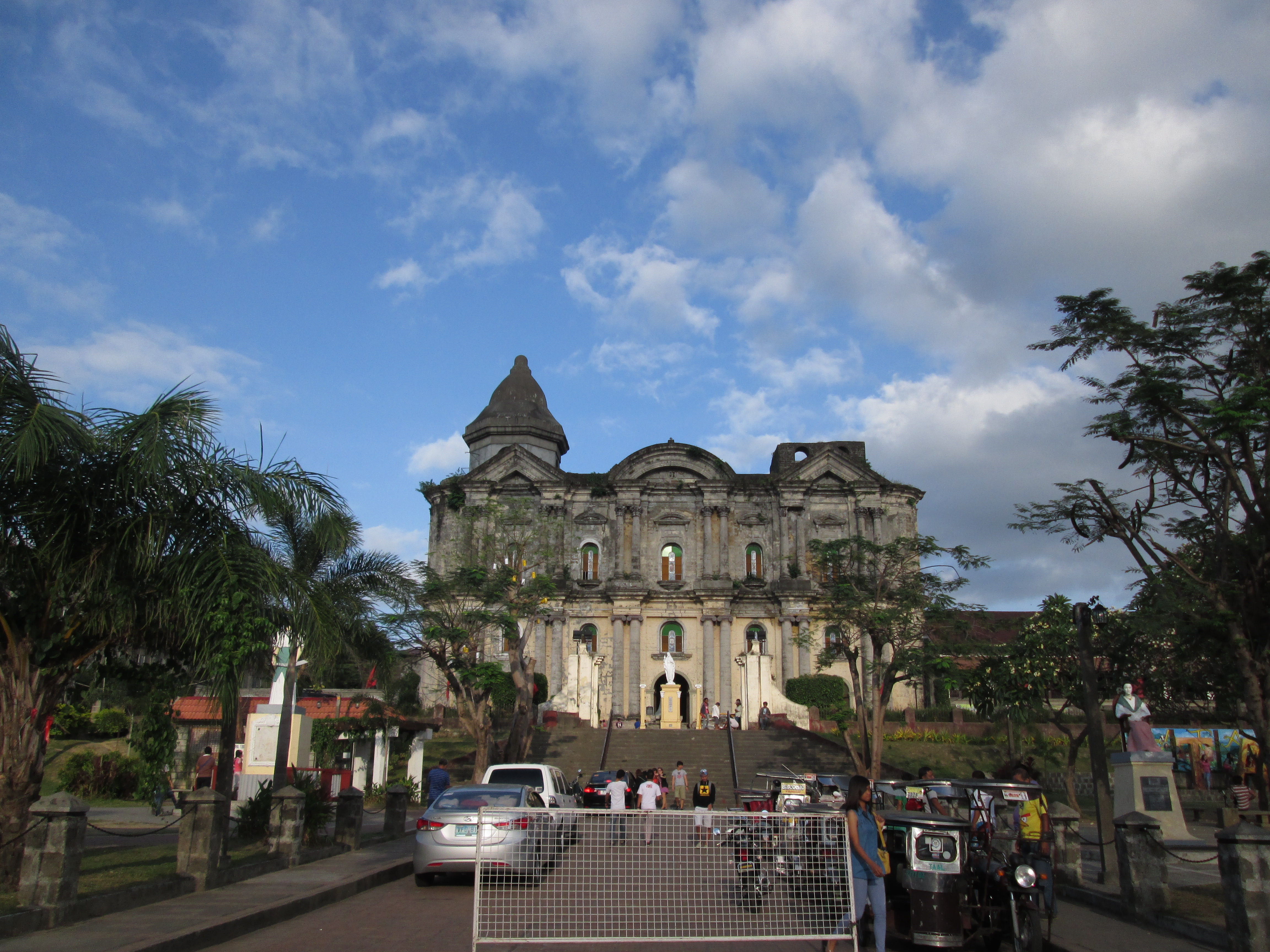 View of Taal Basilica